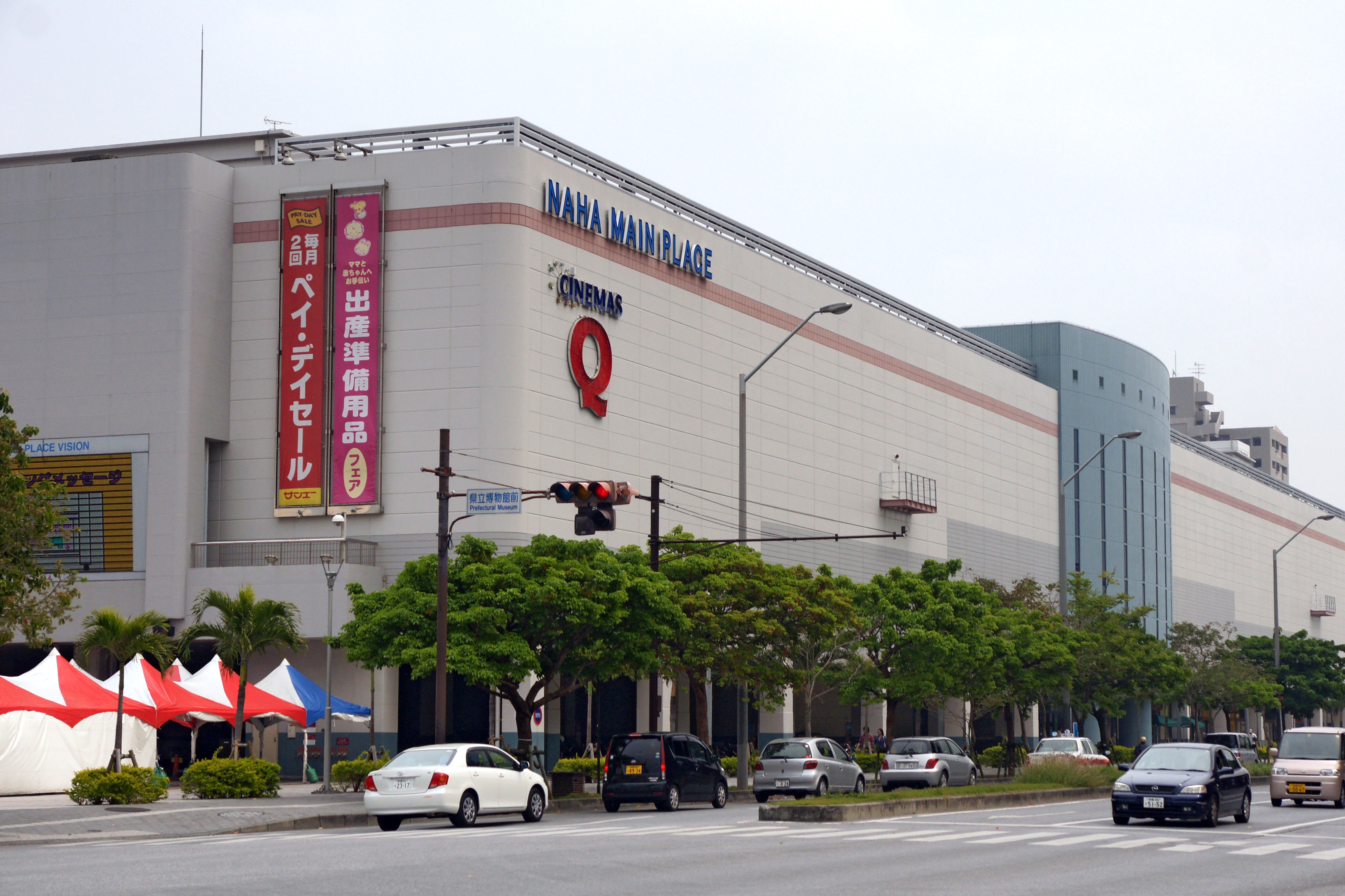 Naha Main Place, Naha, Okinawa prefecture, Japan